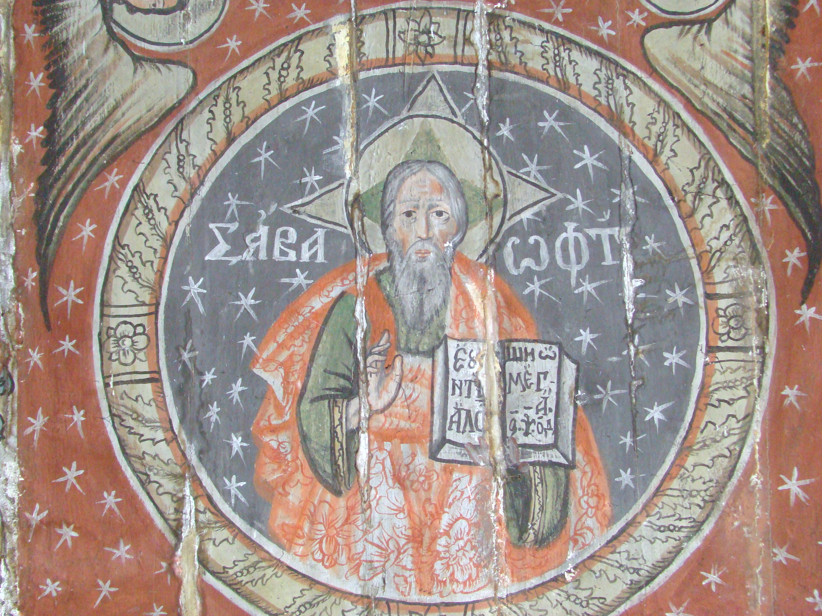 Wooden church in Bica, Cluj countyRomână: Biserica de lemn din Bica, județul Cluj